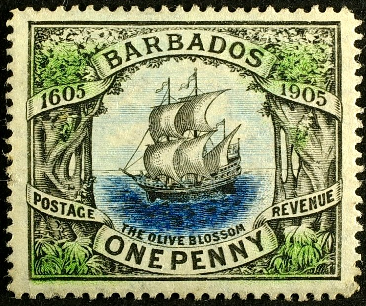 Barbados Postage stamp, 1905 issue